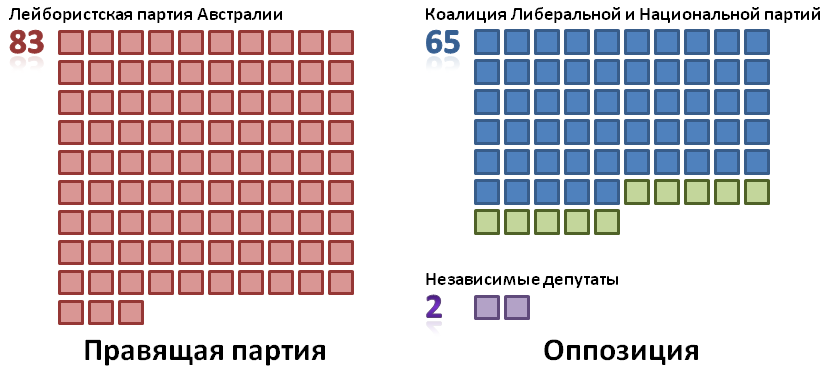 Sits of Australian Parliament spread by parties and coalitions after General Election of 24-11-2007